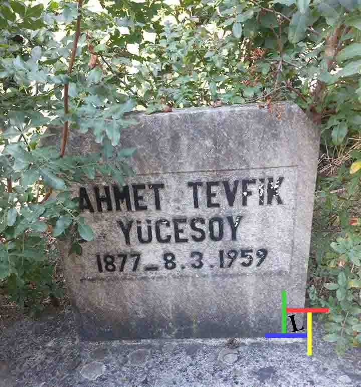 აჰმედ კავაზიში